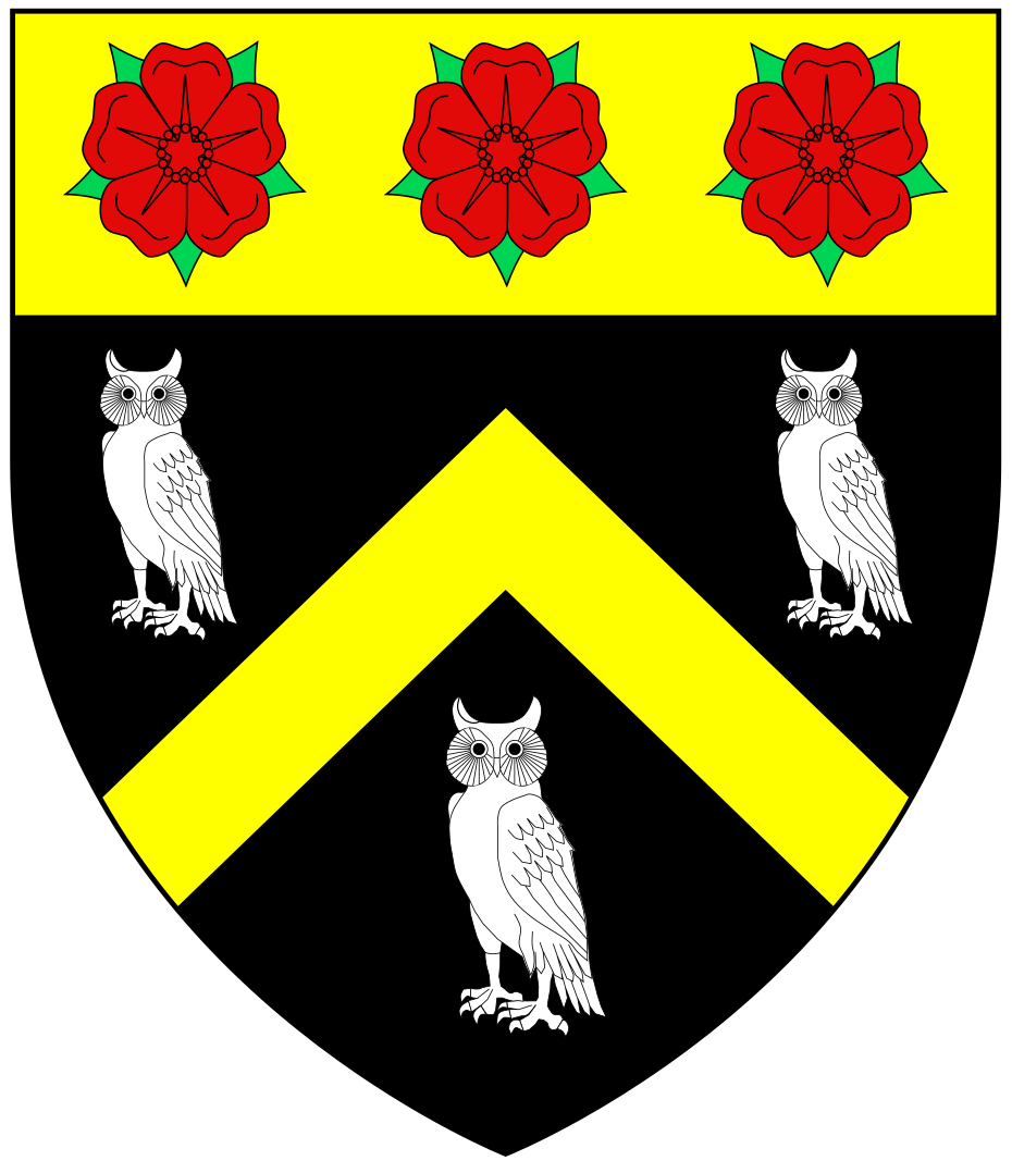 Canting arms of Hugh Oldham (c.1452-1519) Bishop of Exeter: Sable, a chevron or between three owls argent on a chief of the second three roses gules